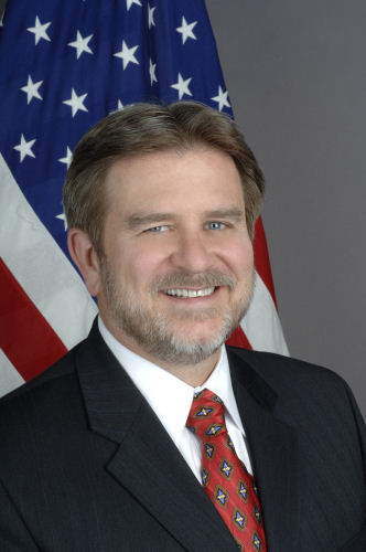 Charles L. English. As of December 2008, the United States Ambassador to Bosnia and Herzegovina.